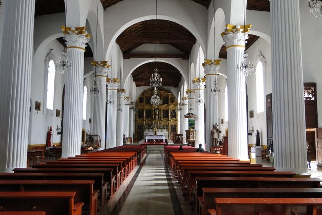 Interior view of the Cathedral in San Cristobal De Las Casas